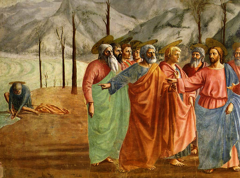 The Tribute Money by Masaccio (left half)